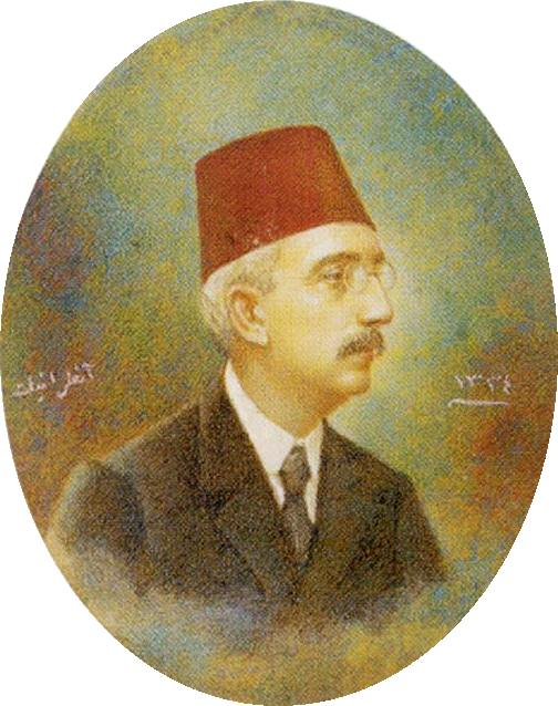 Sultan Mehmed VI Vahideddin, photograph. Located in the Topkapı Sarayı Müzesi, Istanbul (Inv. 17/ 243)